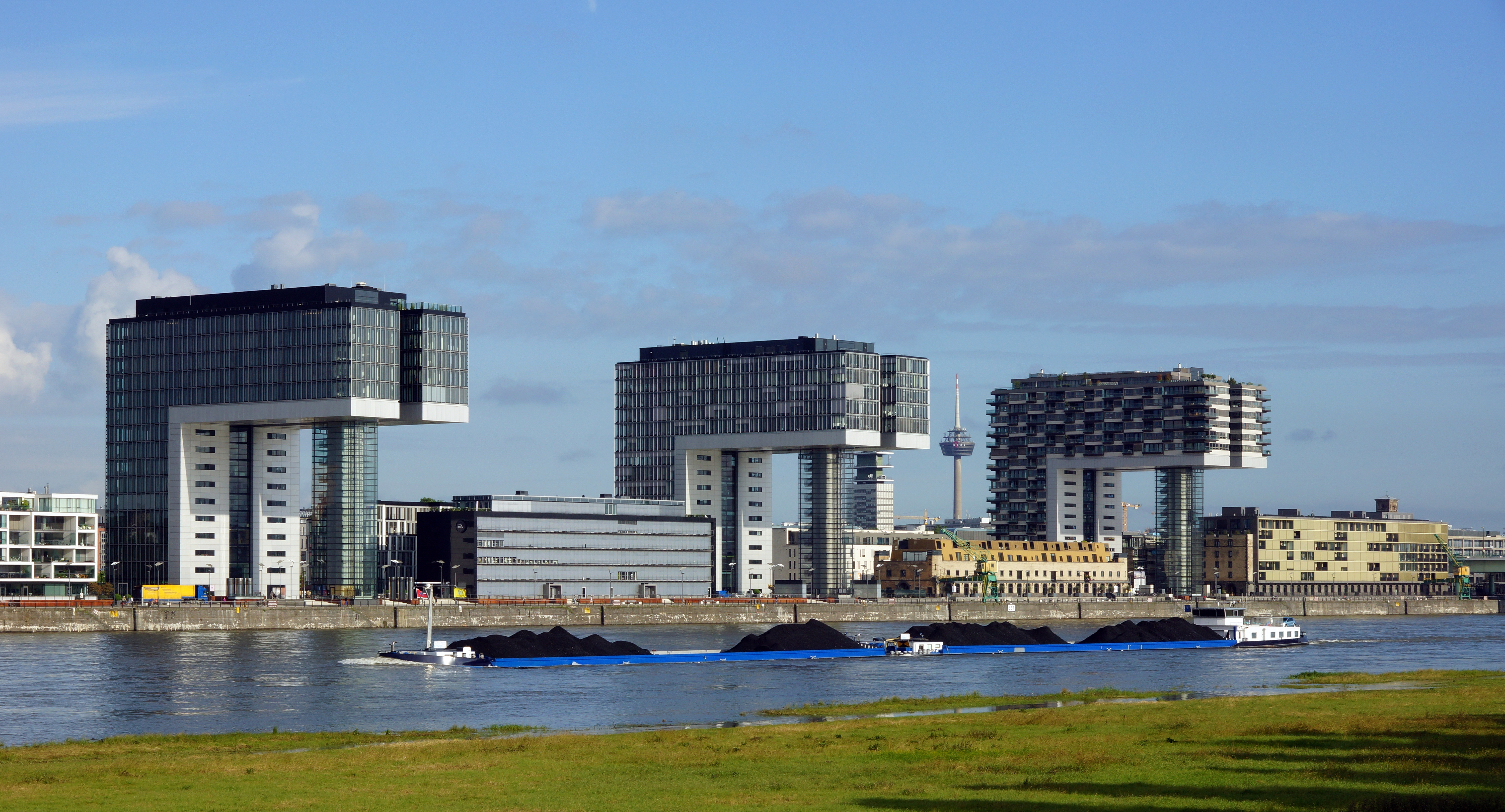 The three Kranhaus buildings in Cologne.